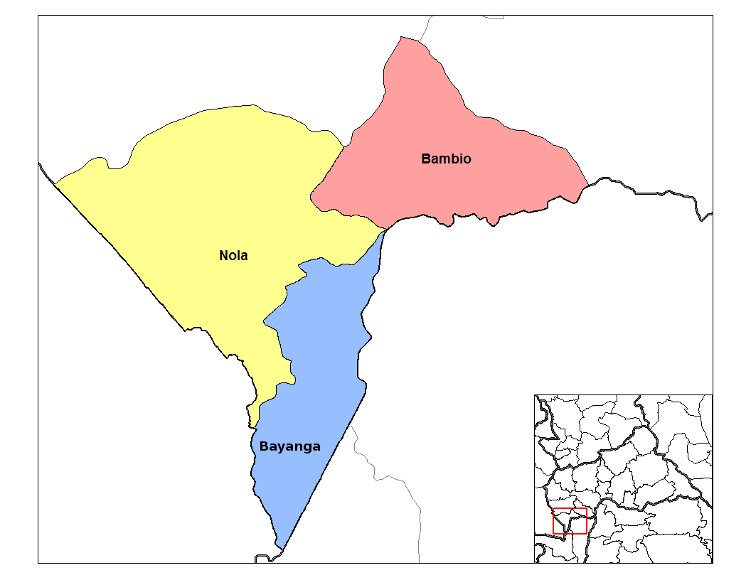 Map of the sub-prefectures of Sangha-Mbaere economic prefecture in the Central African Republic. Created by Rarelibra 20:55, 31 August 2006 (UTC) for public domain use, using MapInfo Professional v8.5 and various mapping resources.